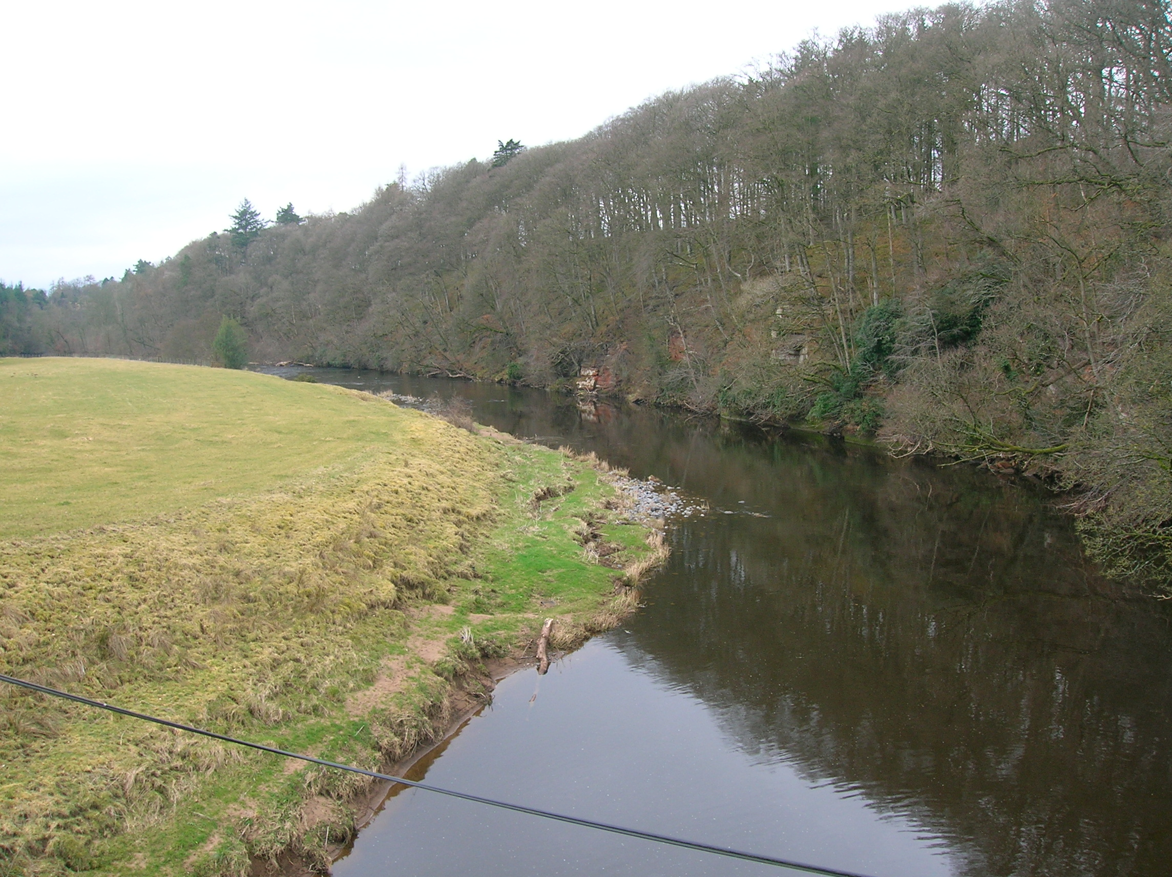 The Holm on the River Ayr, where Robert Burns wrote 'Man was made to mourn'. Near Mauchline, Old Barskimming Bridge, Ayrshire, Scotland